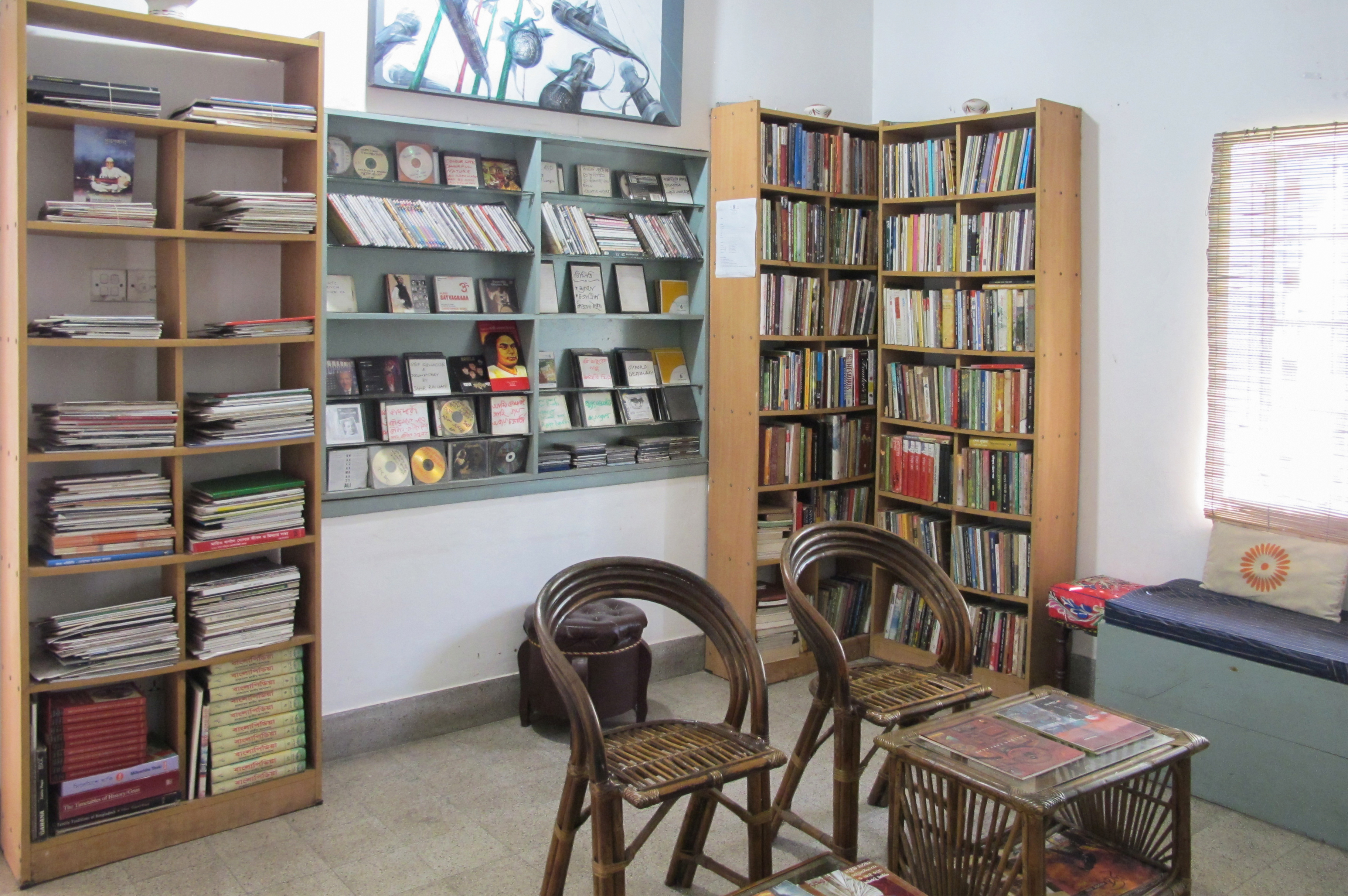 Books corner, Bistaar: Chittagong Arts Complex, Mehedibag, Chittagong.